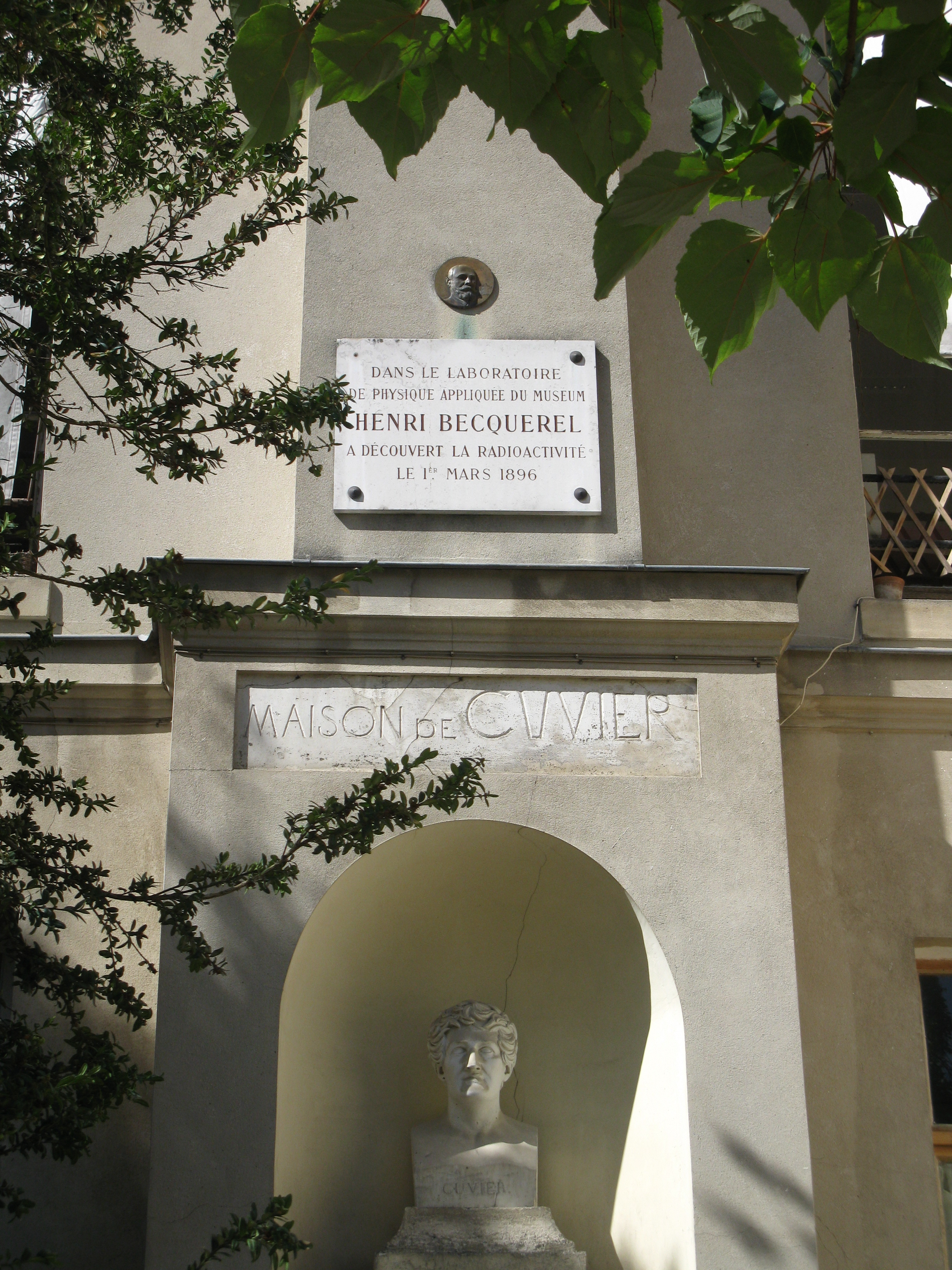 Cuvier's house in Paris, Muséum national d'histoire naturelle: here Becquerel discover the radioactivity.